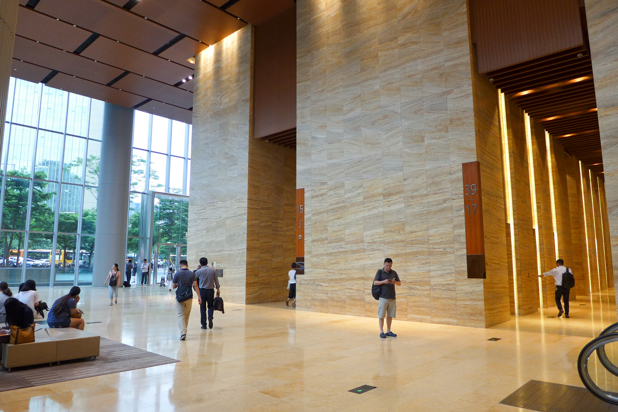 Taikoo Hui Office Tower Lobby